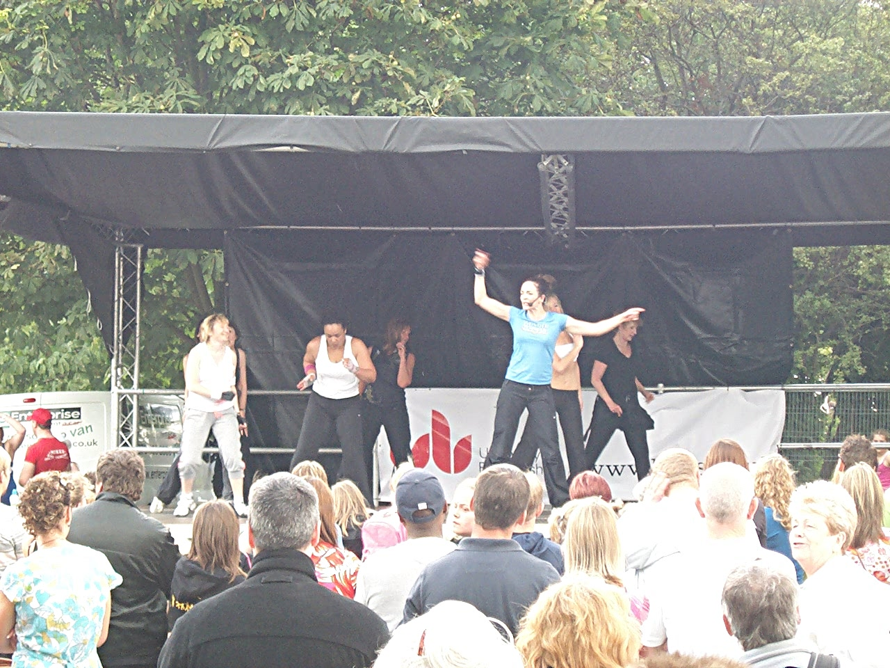 Aerobics display on the sports stage at the 2008 Bedford River Festival.